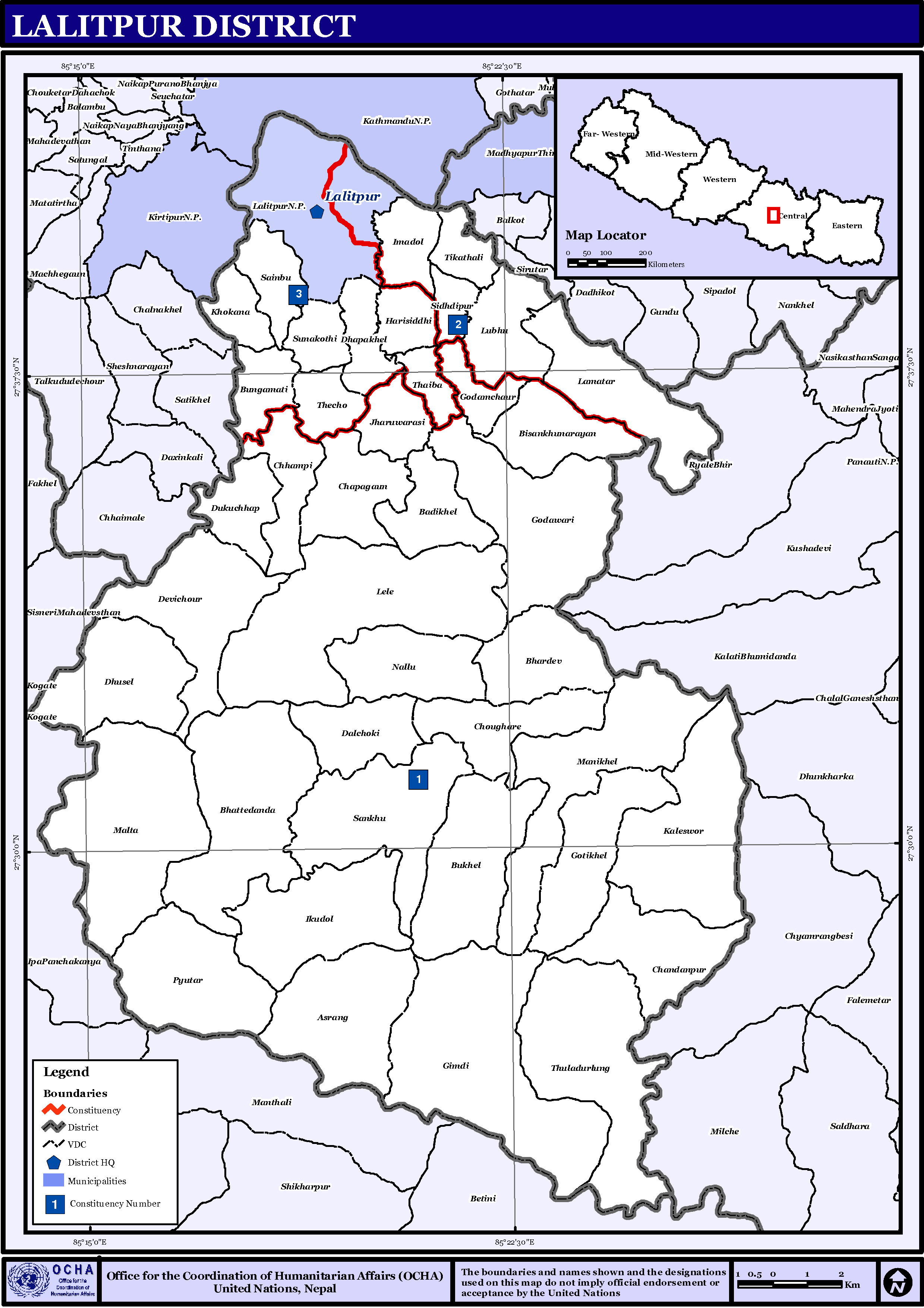 Map displaying Village Development Committees in Lalitpur District, Nepal